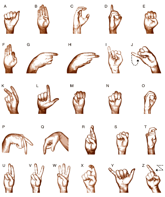 South African Sign Language fingerspelling alphabet (SASL manual letters A-Z)